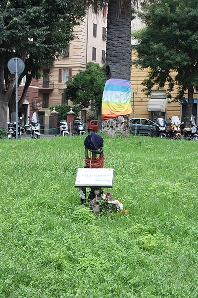 Carlo Giuliani memorial, Piazza Alimonda, Genova.